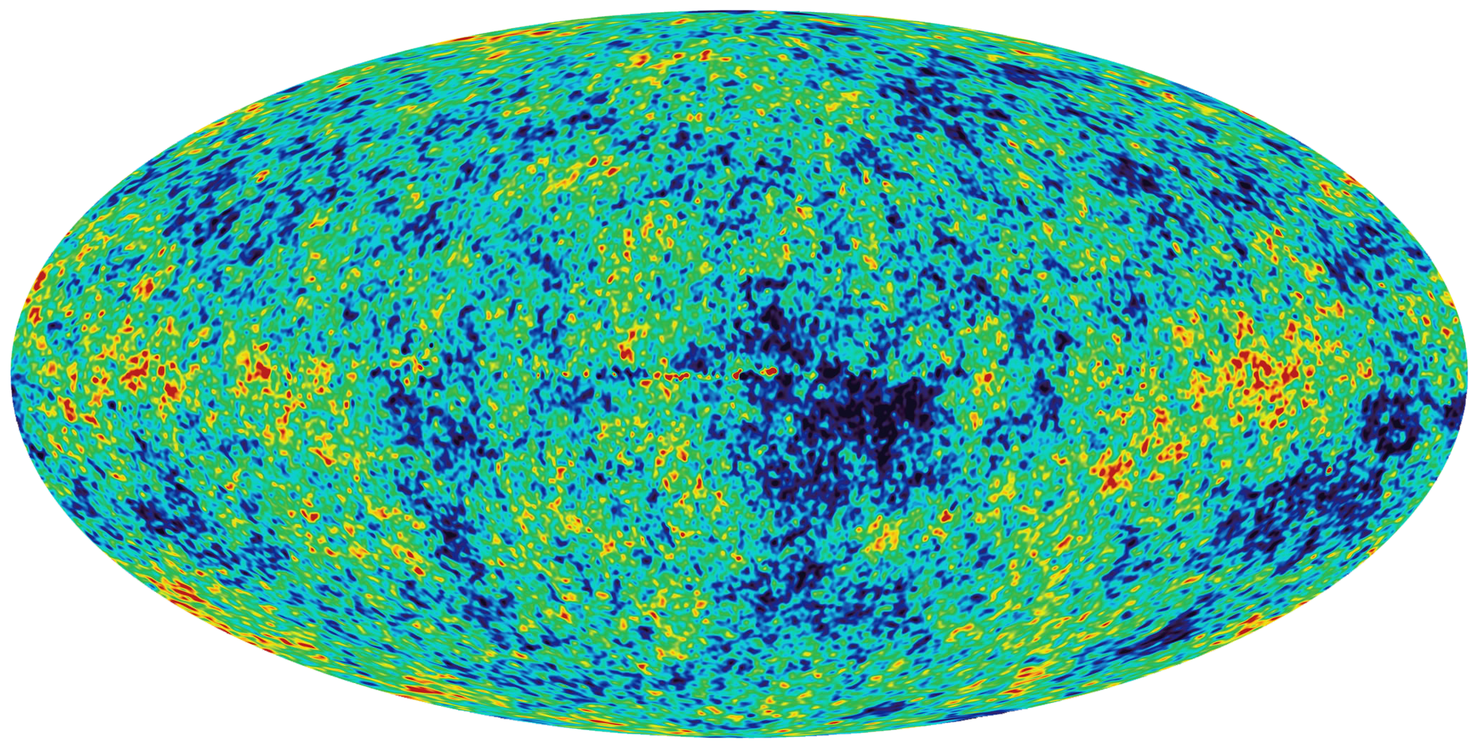 WMAP map of cosmic microwave background anisotropy, from the mission's Data Release 1.